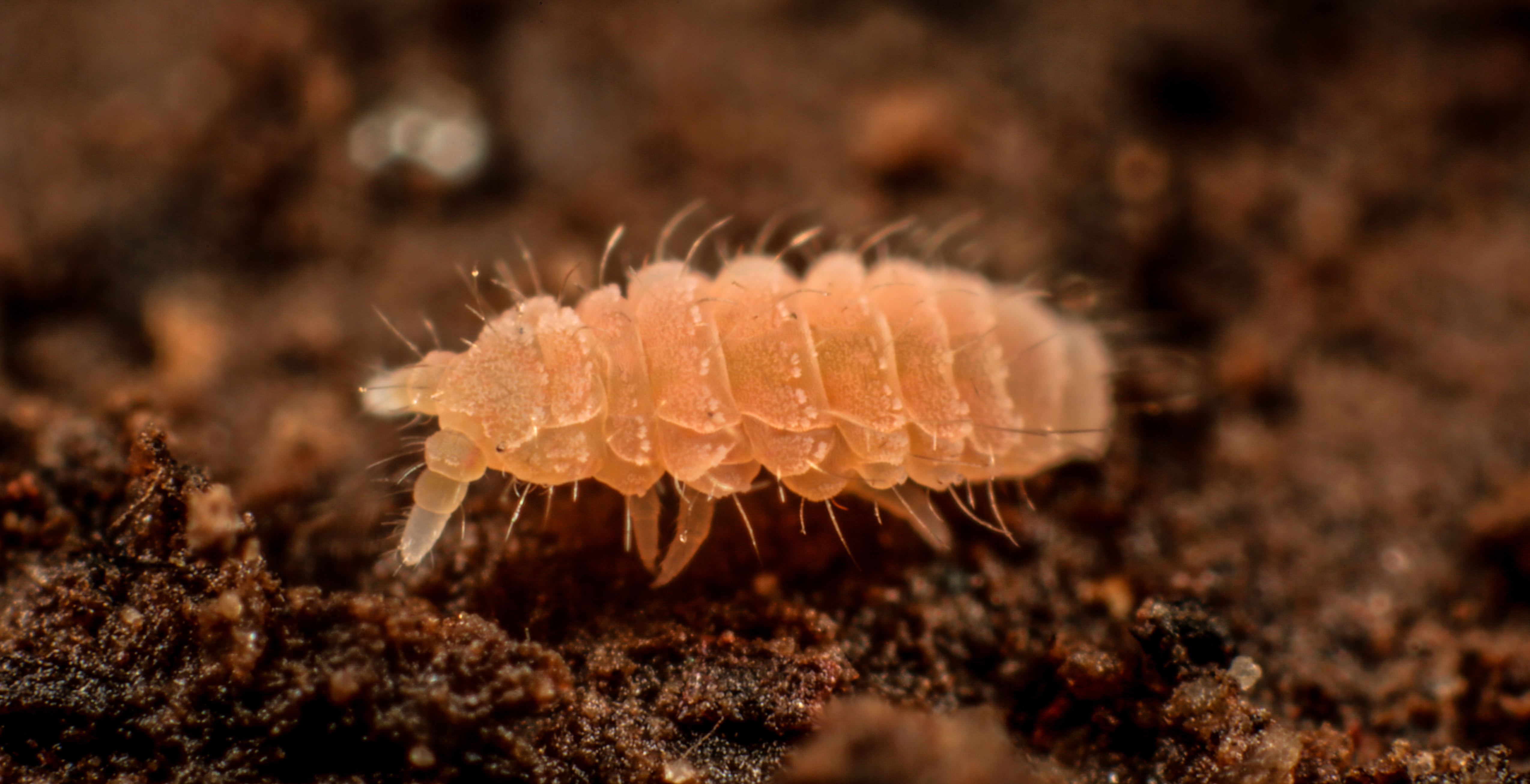 A Monobella grassei springtail from Dundon, England. Original description on Flickr: A couple of photos from the other week that I never got round to posting... Again, very common in the area where I live, but there's still something rather exotic about them. And because they're quite wide, relatively, anyway, they're a bit troublesome to get a decent photo of them at a decent magnification without stacking. These are a couple of my best attempts recently anyway.